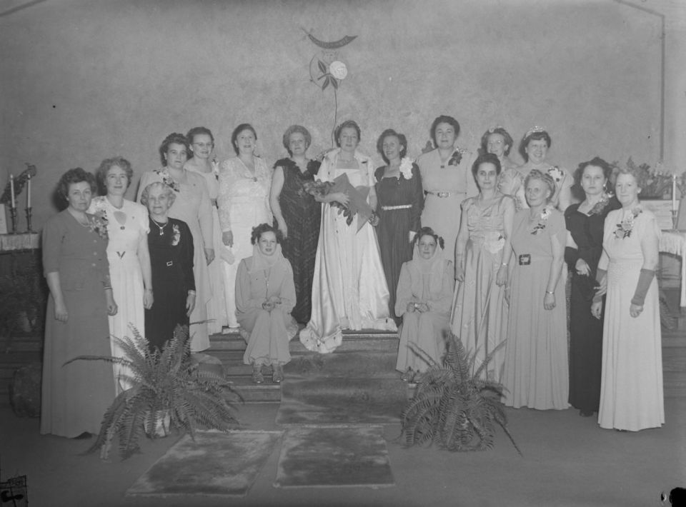 Mrs Norman Johnston is surrounded by volunteers of the charity Daughters of the Nile, which helps children to Shriners Hospital for Crippled Children located on Cedar Avenue in Montreal. All are in robe.